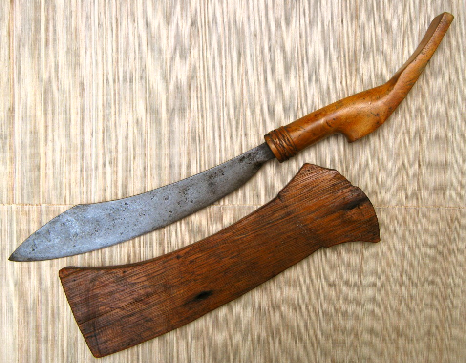 This antique Filipino sword is from the Yakan (Moro) people of Basilan Island, in southern Philippines. The sword is called a pira and it is the Yakans' favorite edged weapon. For comparison, the Tausugs of Sulu favor their barung while the Maguindanaos and the Maranaos favor the kampilan. The hilt is made of wood. The ferrule is made of woven rattan. Overall length: 611 mm (24.1 inches); Blade length: 354 mm (13.9 inches); Maximum blade thickness: 9.5 mm (3/8") For a comparison with the 19th century pira (or pirah), please see this Krieger plate. Other uploaded materials by the same author on this same bolo plus many others can be found here: (a) Luzon weapons; (b) Visayan weapons; (c) Moro weapons; and (d) Lumad (non-Moro Mindanao) weapons